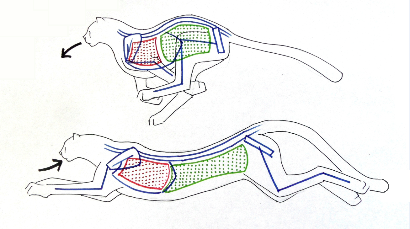 abdominal and thorciac cavities of cheetah durring a sprint, showing phases of forced inhalation and exhalation